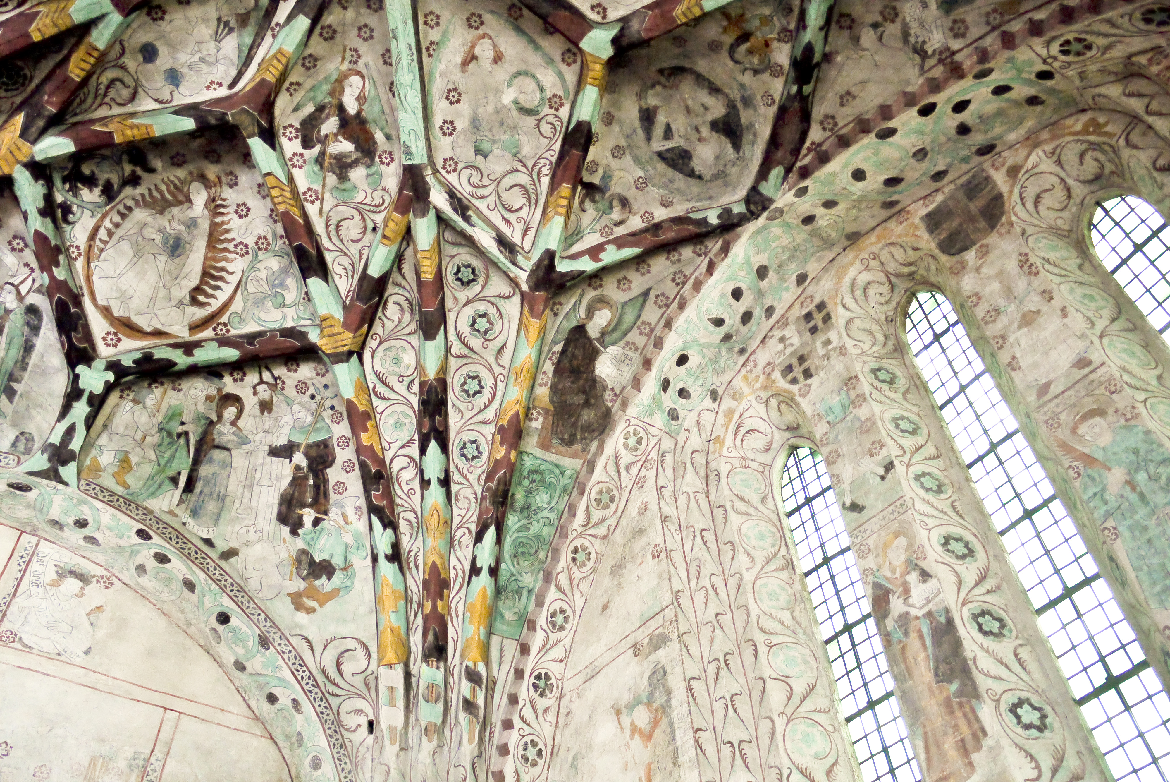 Härkeberga church. Diocese of Uppsala, Enköping, Sweden.